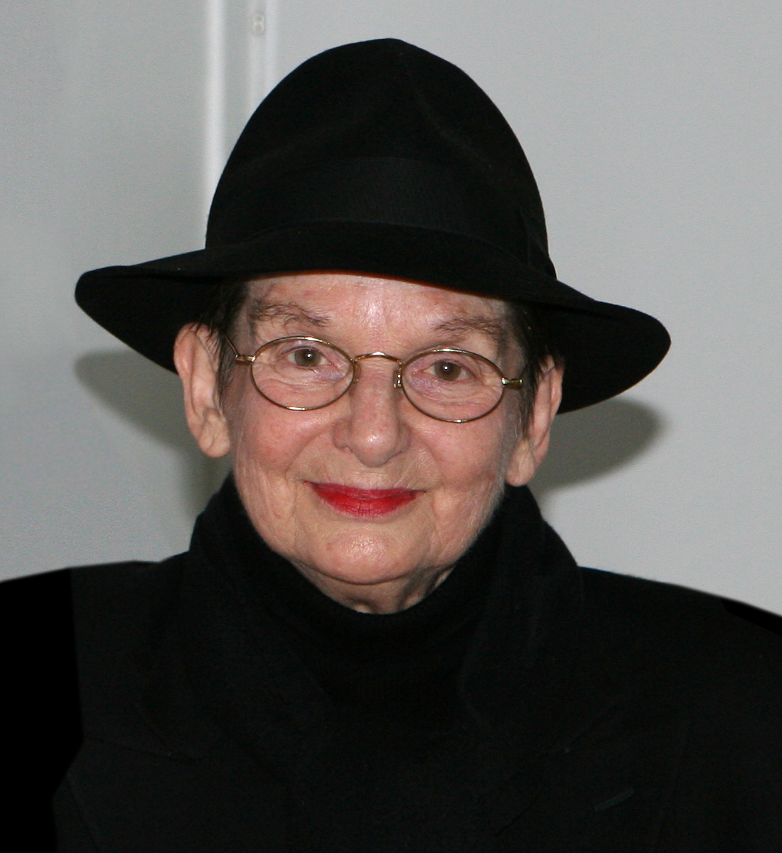 Nan Hoover in Glasgow, April 2007